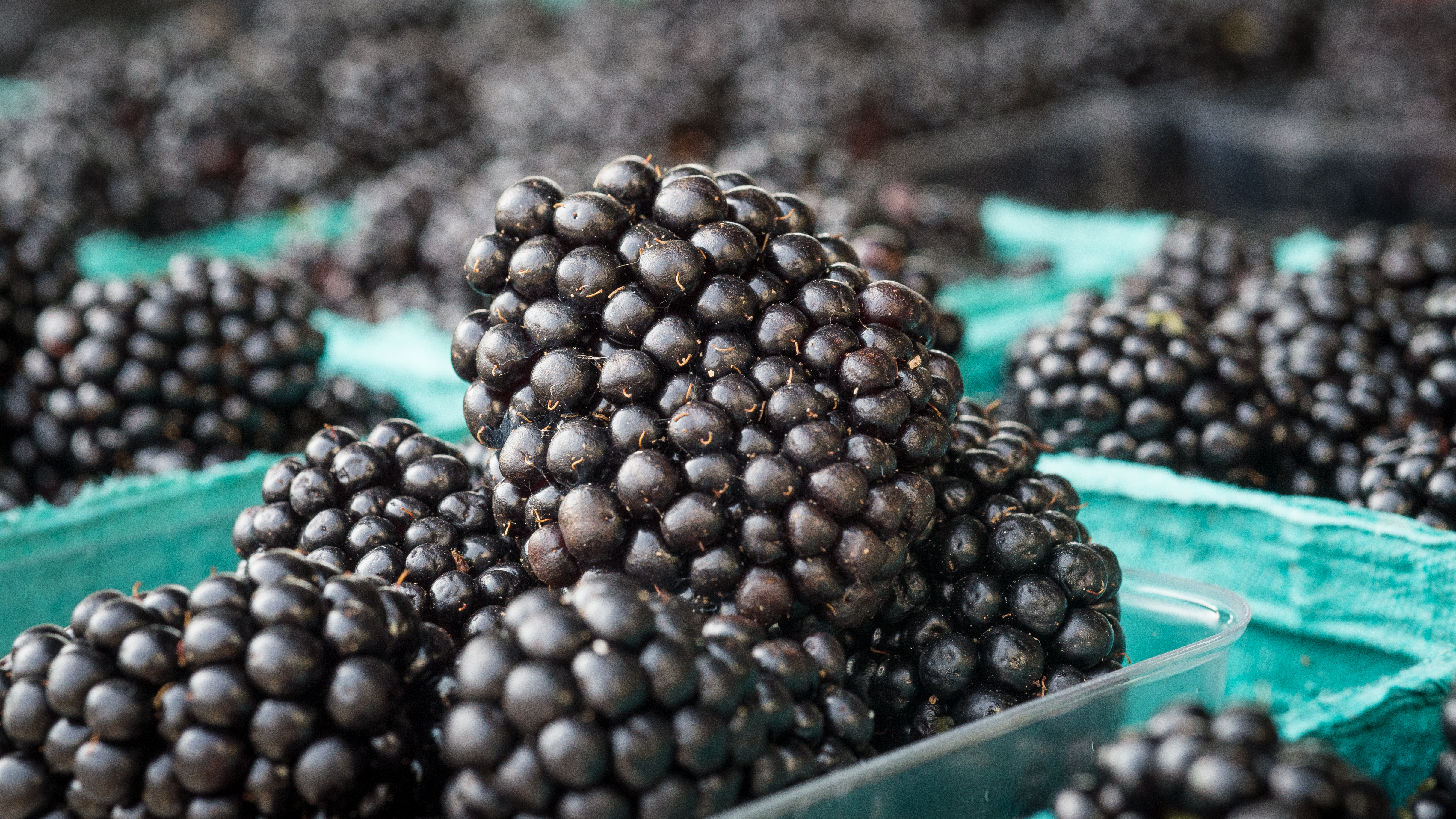 Blackberries available from vendor at the U.S. Department of Agriculture Farmers Market on Friday July 22, 2016, in Washington, D.C., USDA Photo by Lance Cheung.